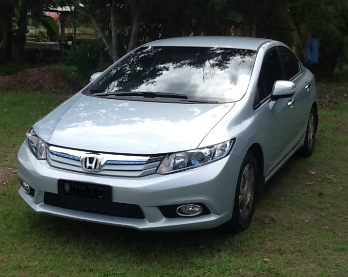 thumb|Caption